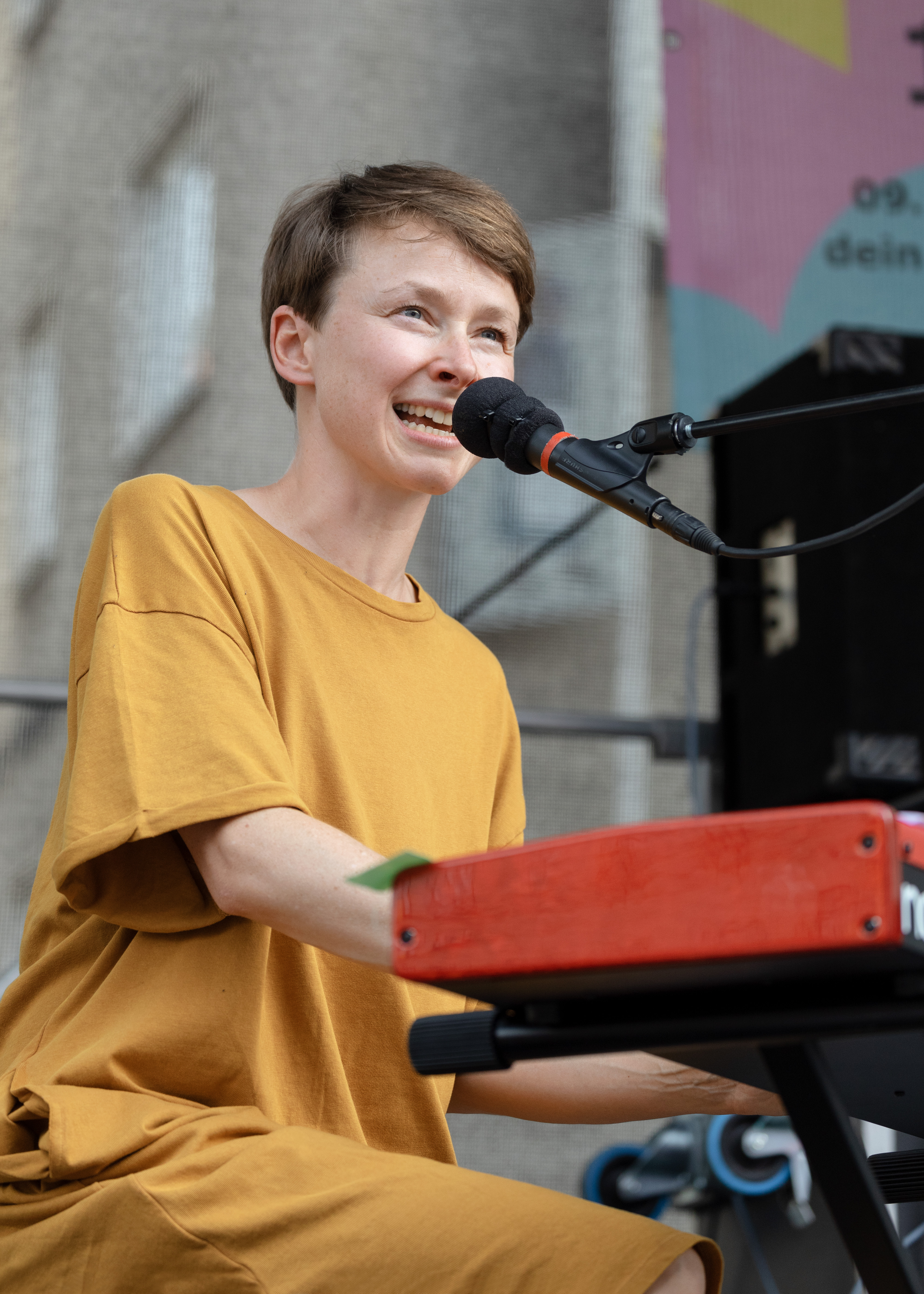 Violetta Parisini with Peter Rom (git), Hanibal Scheutz (b) and Sixtus Preiss (dr), concert at the neighbourhood festival on Schwendermarkt in Vienna, Austria.